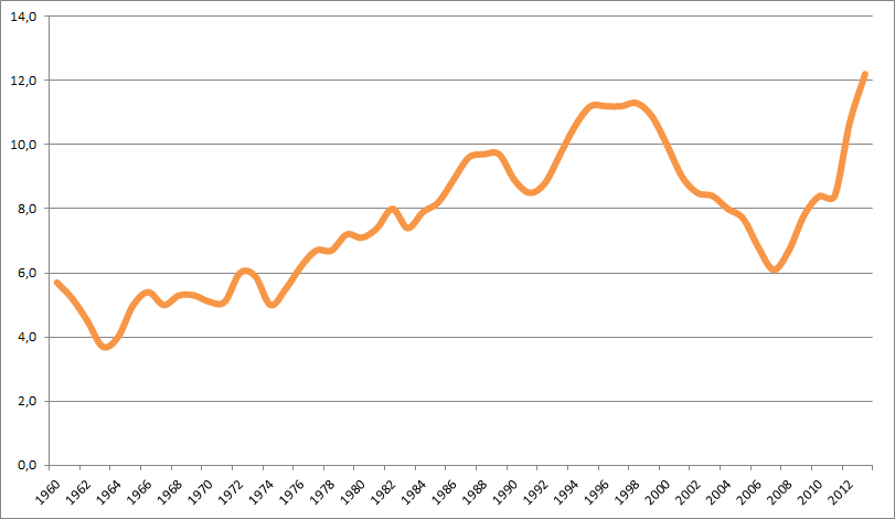 Unemployment rate in Italy (1960-2010)